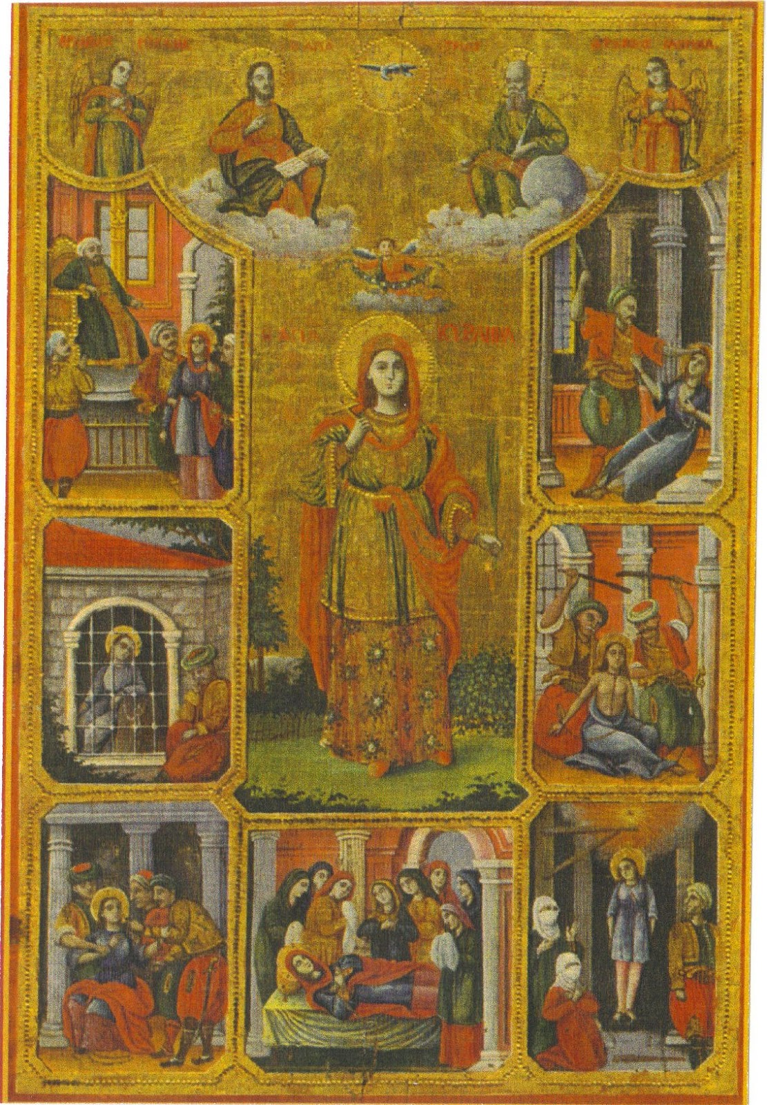 Saint Kirana Icon